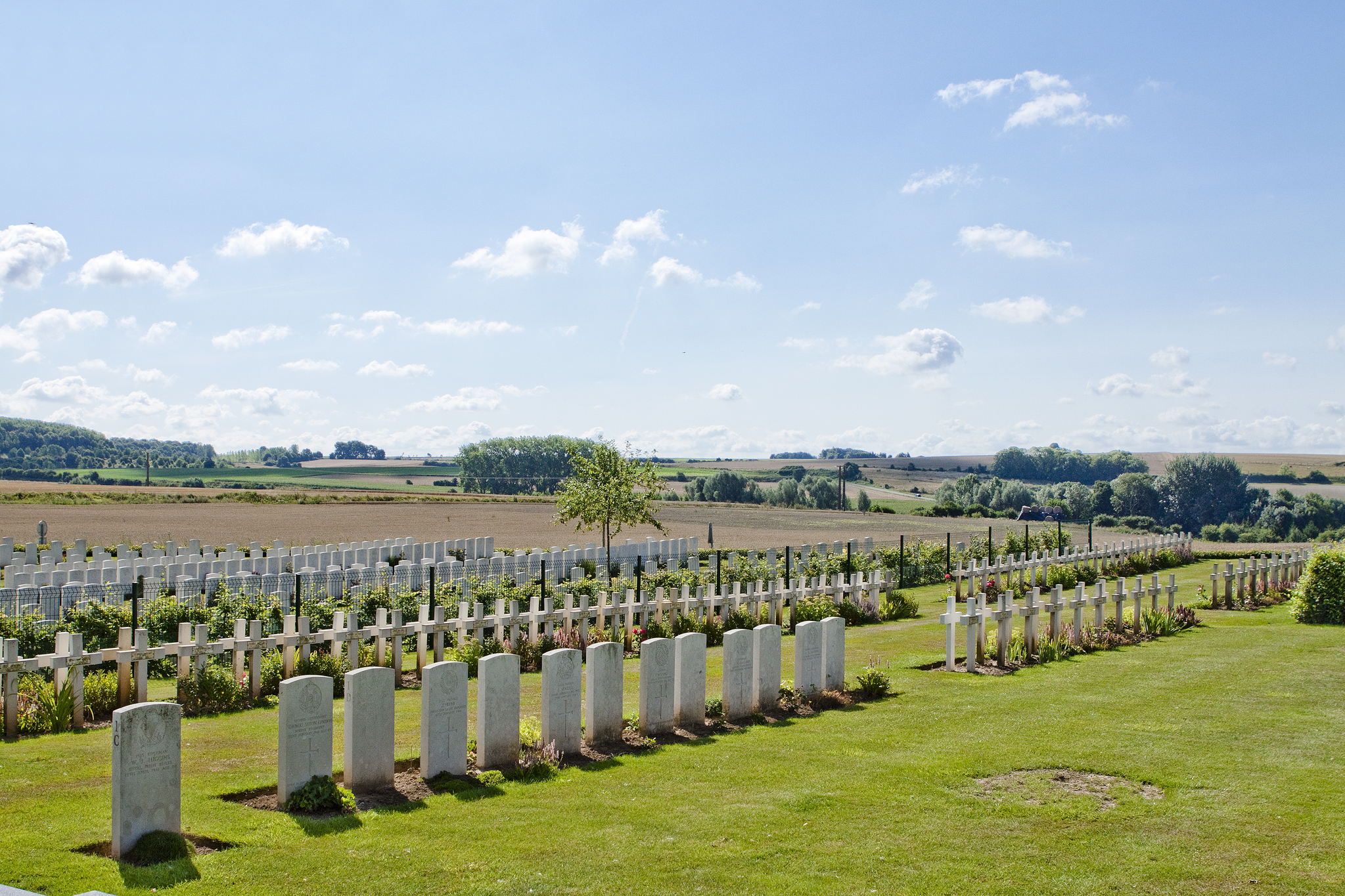 Warloy-Baillon Communal Cemetery